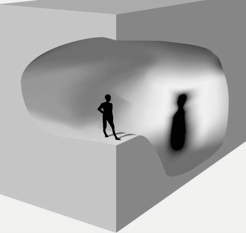 Silhouette of a woman in a cave looking at her own shadow. The image can be used in philosophy (for example in Allegory of the cave) as well as to show psychological principles (for example Borderline personality disorder).